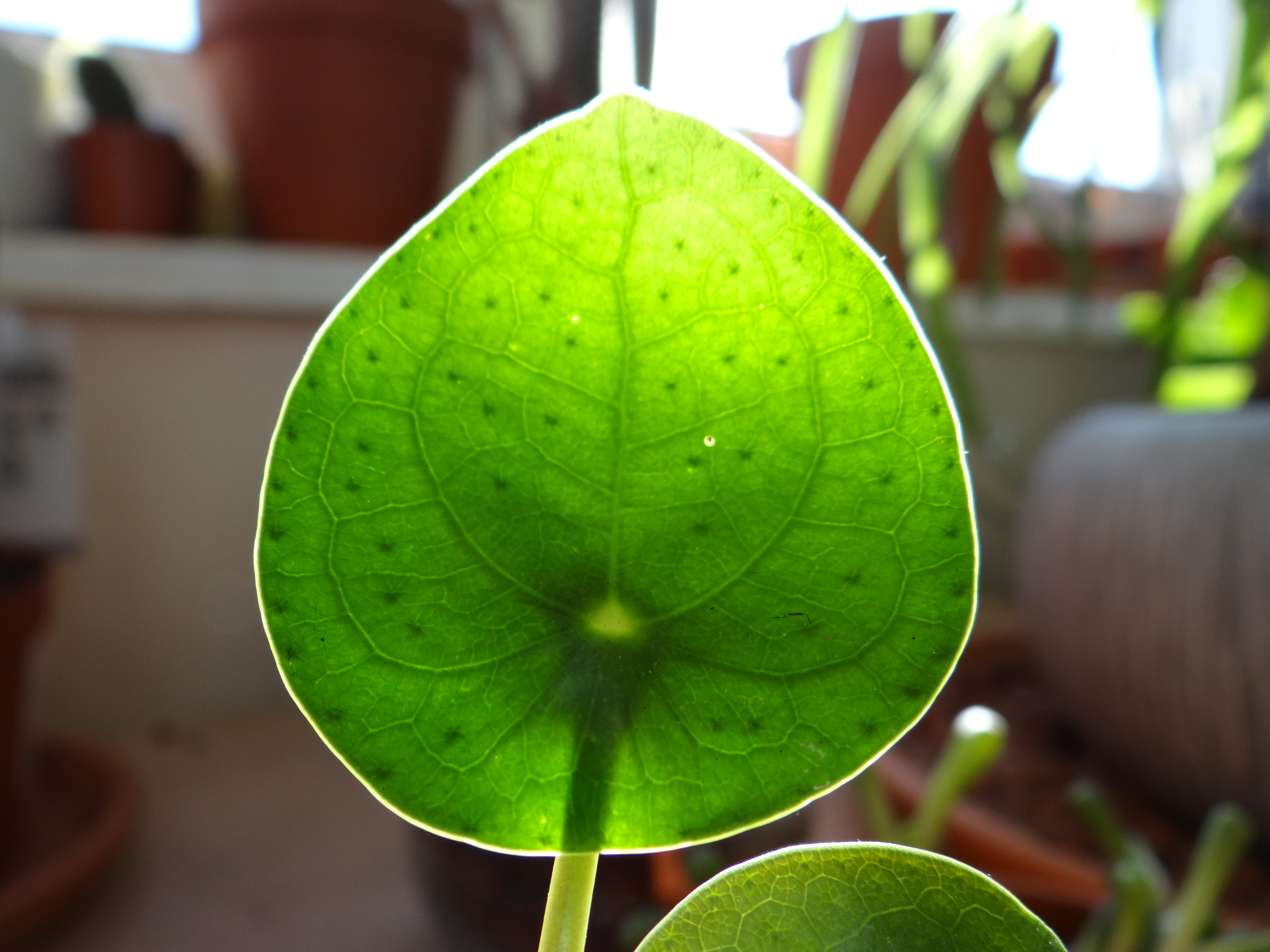 Stomatas of a leave of Pilea peperomioides.